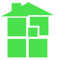 SBurb is a video game from Homestuck.